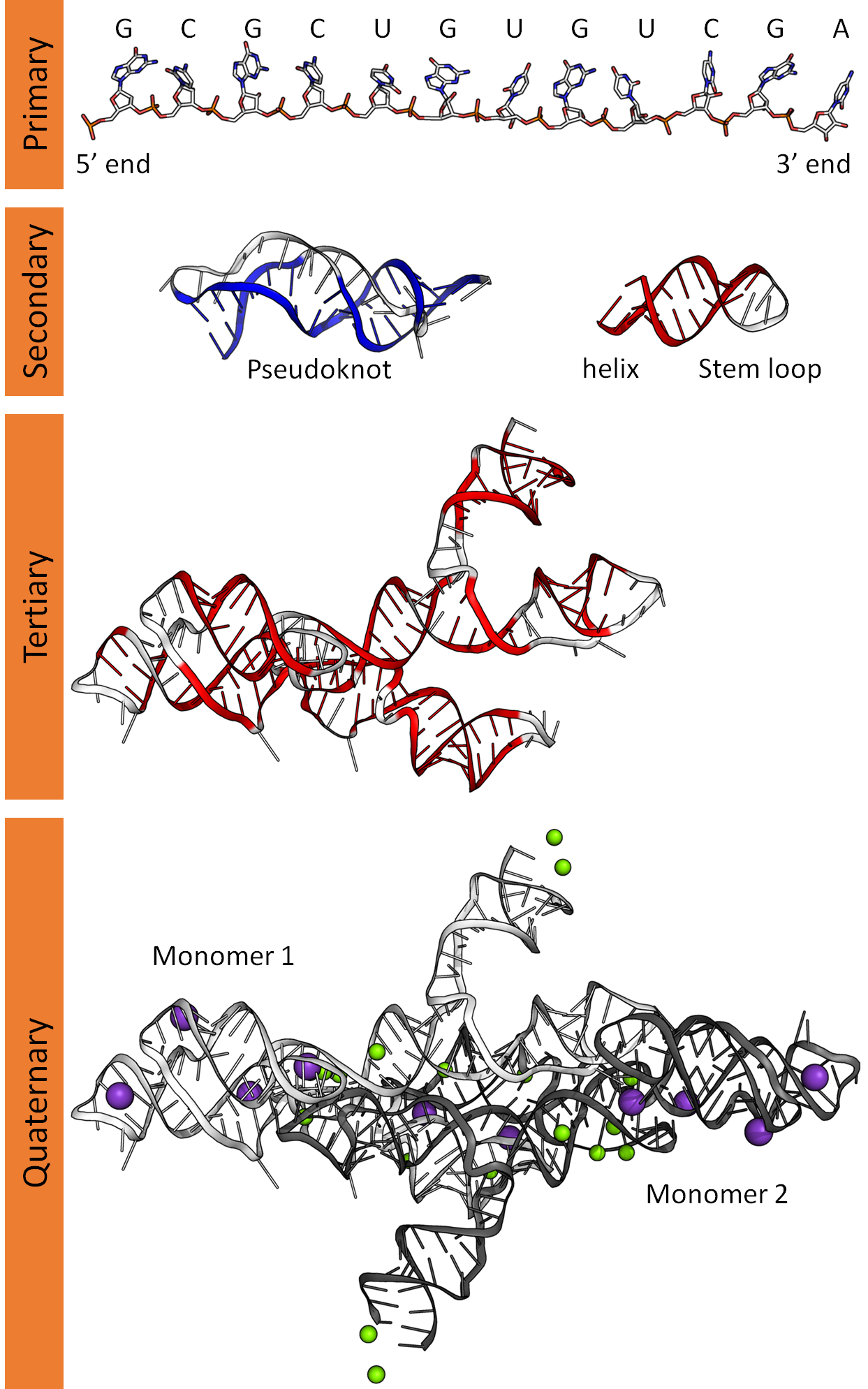 Summary of nucleic acid structure (primary, secondary, tertiary, and quaternary) using the examples of VS Ribozyme and Telomerase. (PDB: 4R4V, 1YMO​)